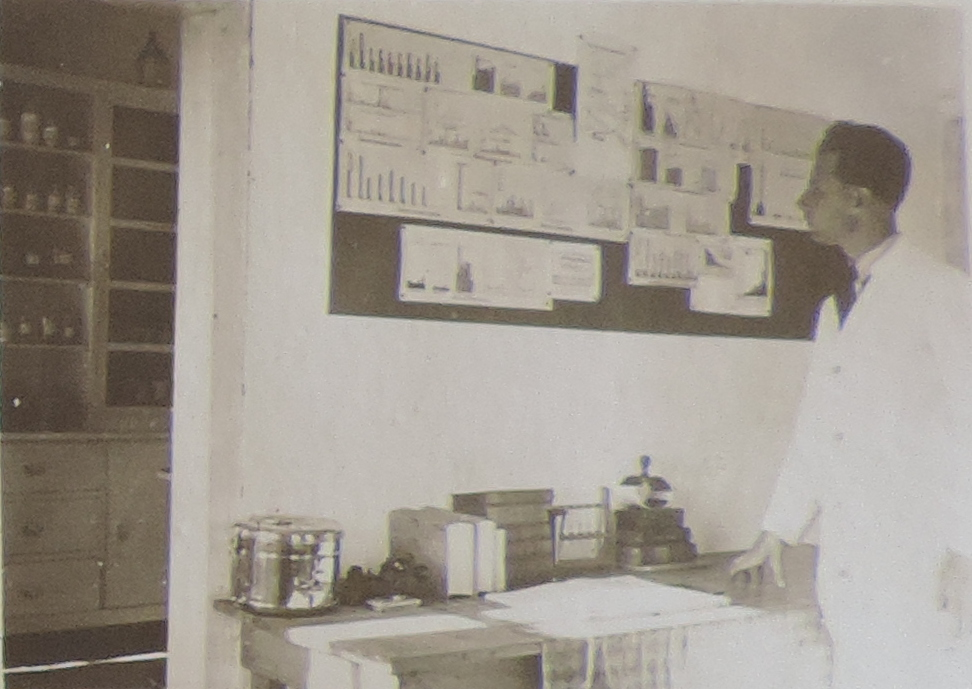 A photo album by doctors, paramedics and midwives at the Kyustendil Sanitary region in 1936. It was compiled by Dr. A. Ogoyski. Handed to His Royal Highness Simeon Knyaz Tarnovski.